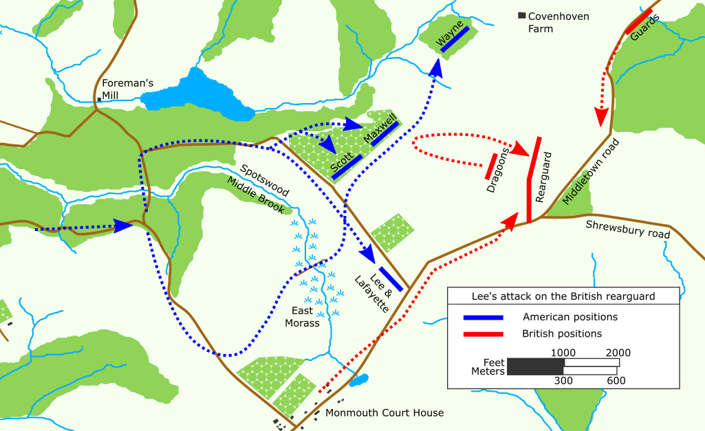 Map showing the advance to contact of Major General Charles Lee's vanguard, movements of the British rearguard and their approximate positions